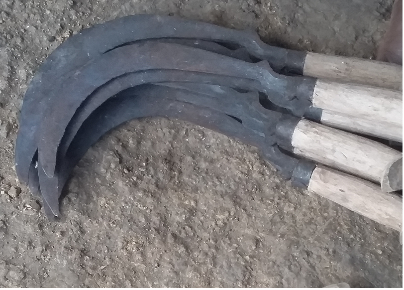 Sickle